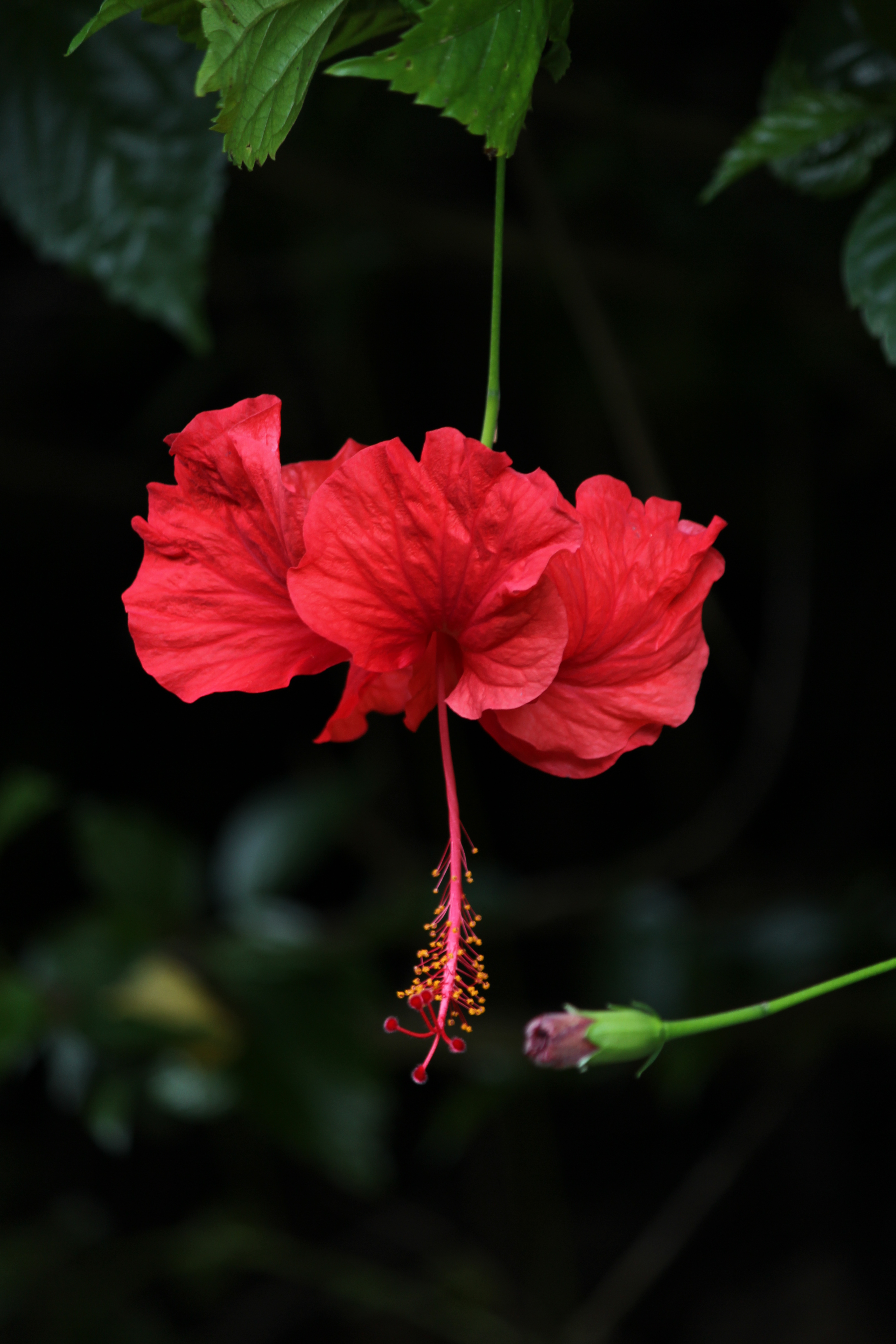 Hibiscus is a genus of flowering plants in the mallow family, Malvaceae. The genus is quite large, comprising several hundred species that are native to warm-temperate, subtropical and tropical regions throughout the world. Member species are renowned for their large, showy flowers and are commonly known simply as hibiscus, or less widely known as rose mallow. The genus includes both annual and perennial herbaceous plants, as well as woody shrubs and small trees. The generic name is derived from the Greek word ἱβίσκος (hibískos), which was the name Pedanius Dioscorides (c. 40–90) gave to Althaea officinalis.